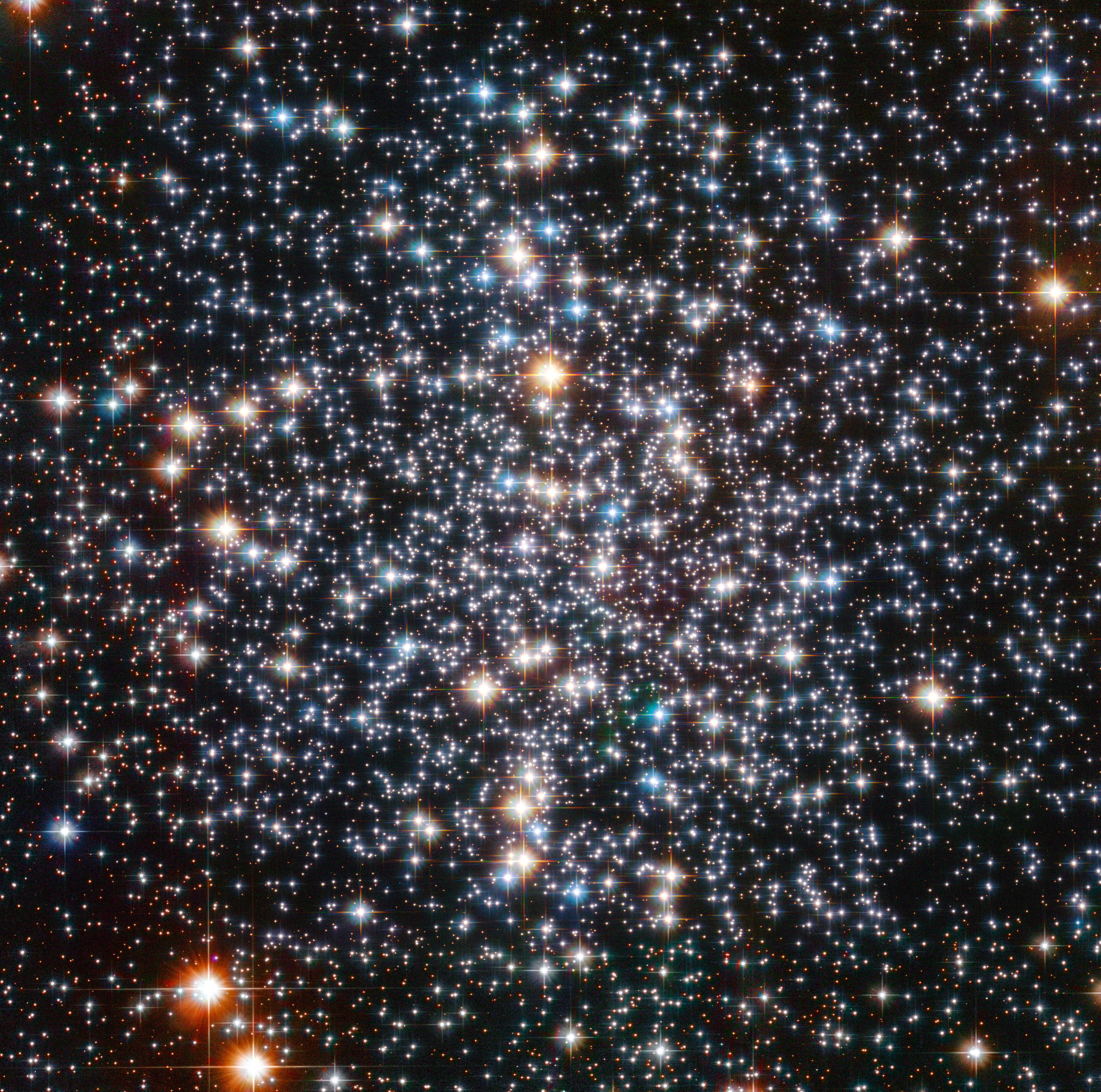 This sparkling picture taken by the NASA/ESA Hubble Space Telescope shows the centre of globular cluster M 4. The power of Hubble has resolved the cluster into a multitude of glowing orbs, each a colossal nuclear furnace. M 4 is relatively close to us, lying 7200 light-years distant, making it a prime object for study. It contains several tens of thousand stars and is noteworthy in being home to many white dwarfs — the cores of ancient, dying stars whose outer layers have drifted away into space. In July 2003, Hubble helped make the astounding discovery of a planet called PSR B1620-26 b, 2.5 times the mass of Jupiter, which is located in this cluster. Its age is estimated to be around 13 billion years — almost three times as old as the Solar System! It is also unusual in that it orbits a binary system of a white dwarf and a pulsar (a type of neutron star). Amateur stargazers may like to track M 4 down in the night sky. Use binoculars or a small telescope to scan the skies near the orange-red star Antares in Scorpius. M 4 is bright for a globular cluster, but it won’t look anything like Hubble’s detailed image: it will appear as a fuzzy ball of light in your eyepiece. On Wednesday 5 September, the European Southern Observatory (ESO) will publish a wide-field image of M 4, showing the full spheroidal shape of the globular cluster. See it at on Wednesday.